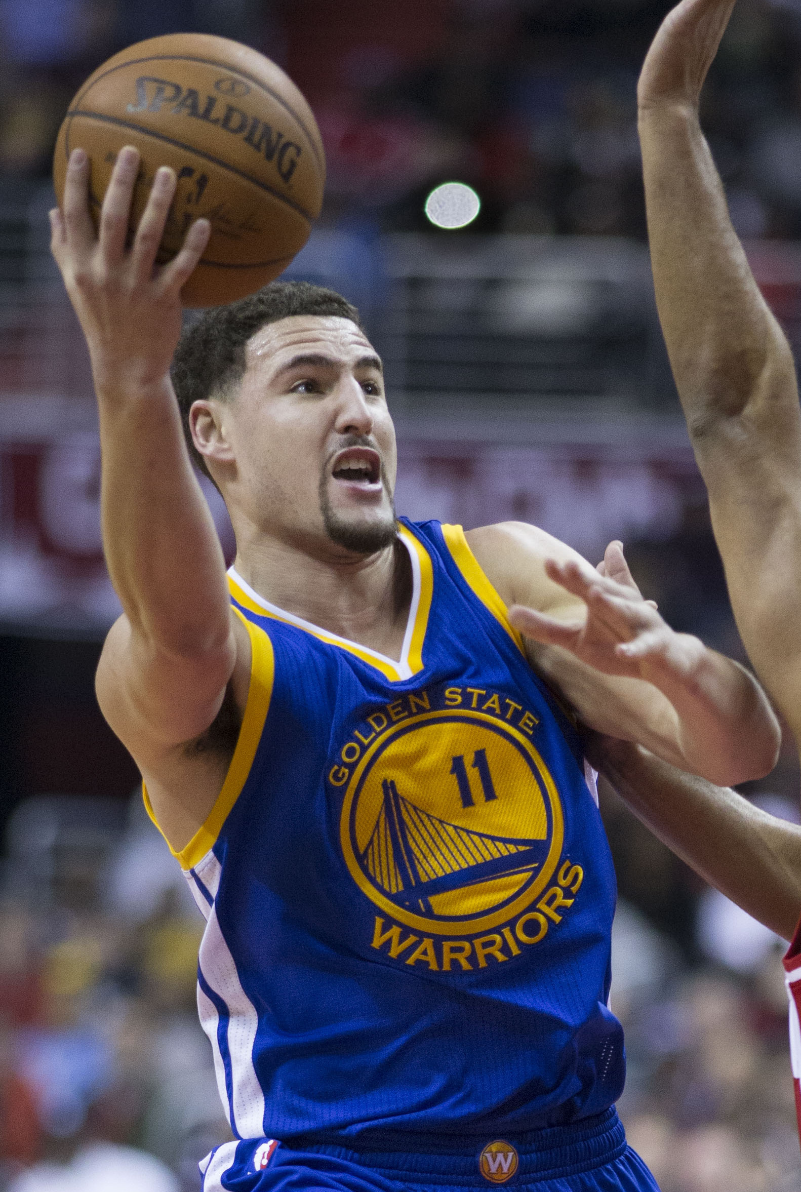 Klay Thompson of Golden State Warriors shooting against Jared Dudley of Washington Wizard